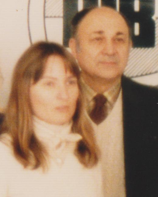 Stepanka Vokralova and Sergiu Samarian, 1985 at Bad Lauterberg, zonal chess tournamen for women.